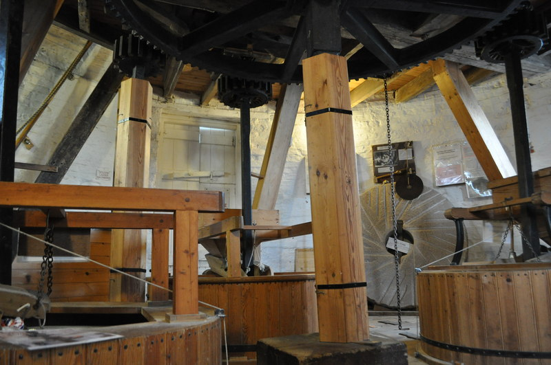 Heckington Windmill - Stones, near to Heckington, Lincolnshire, Great Britain. A view of the stones with great spur wheel at the top. All in working order although currently waiting for sail repair.